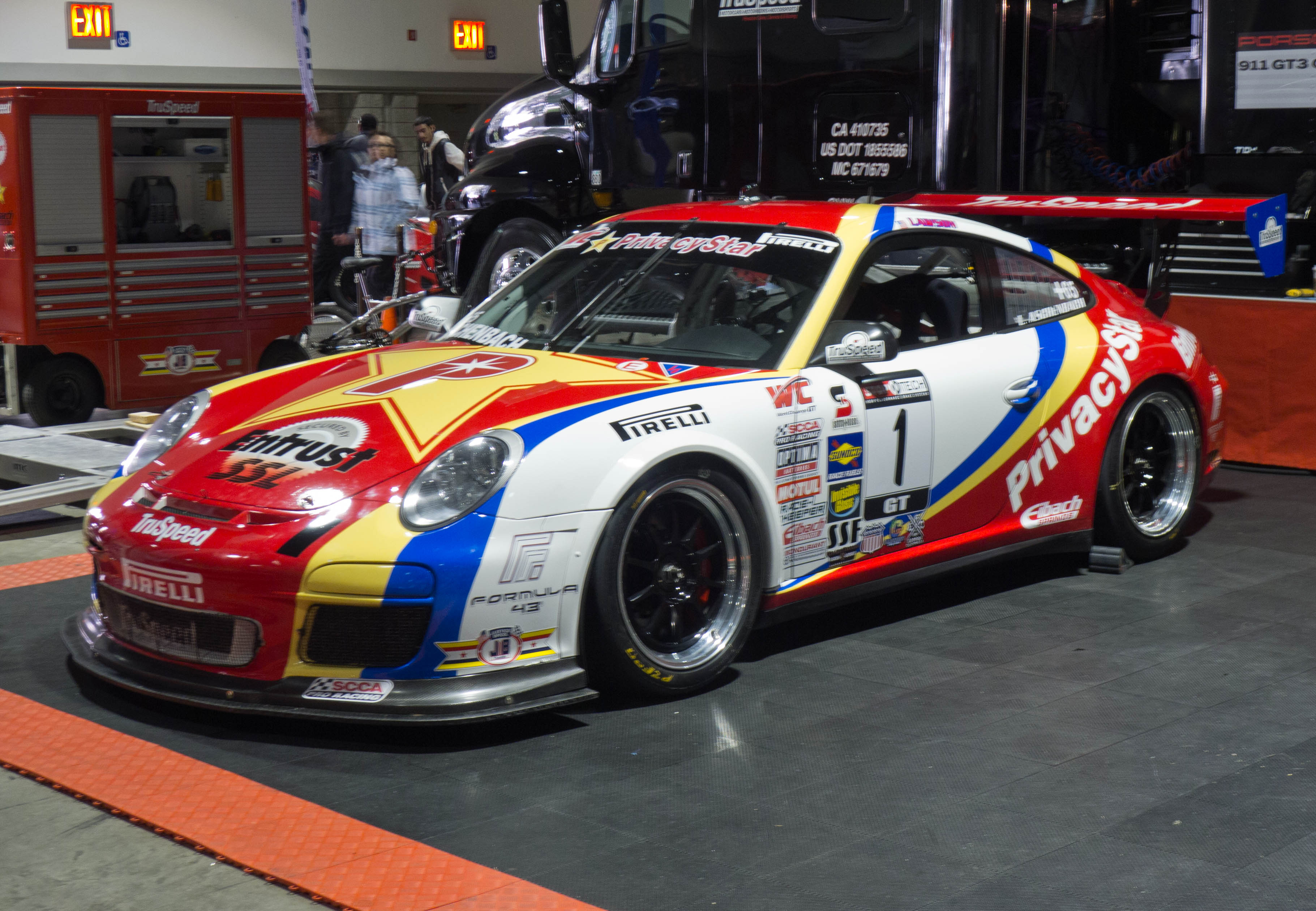 Entrust SSL Porsche GT3 Cup 2012 Long Beach Grand Prix seen in the Indoor Pit Area.